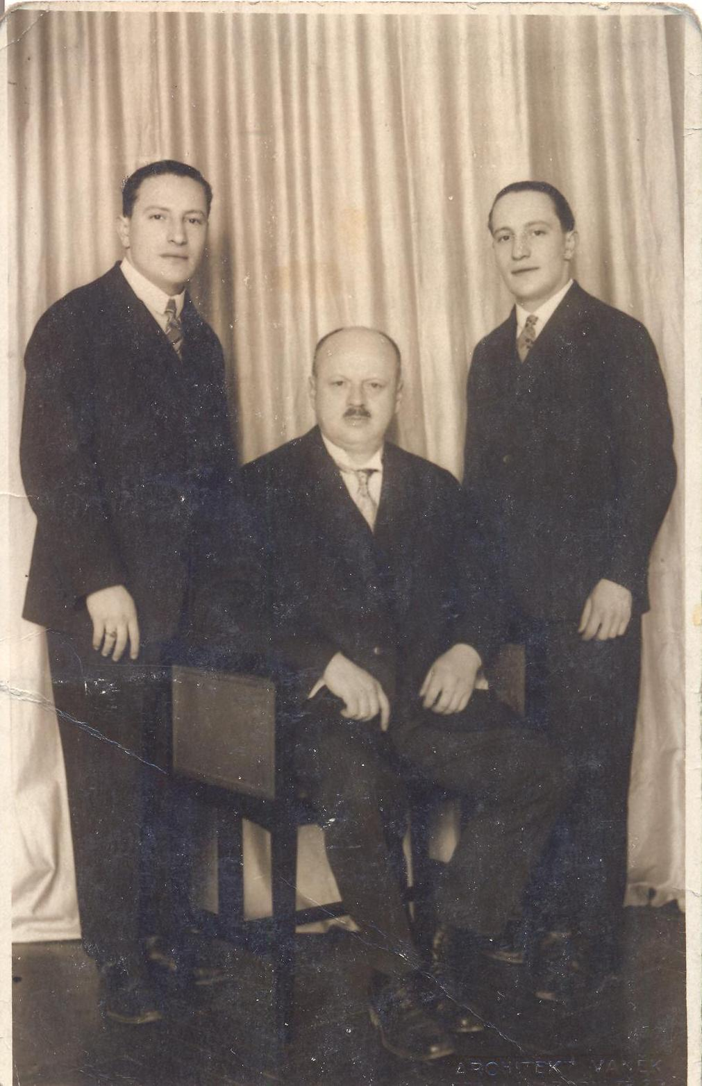 Pancho Vladigerov, František Stupka and Lyuben Vladigerov, Praga, 23-25 March 1928.